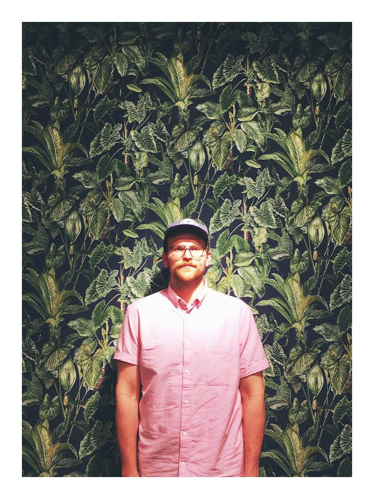 Jordan Prince, Munich based musician from the United States standing in front of jungle wallpaper wearing his favorite hat.